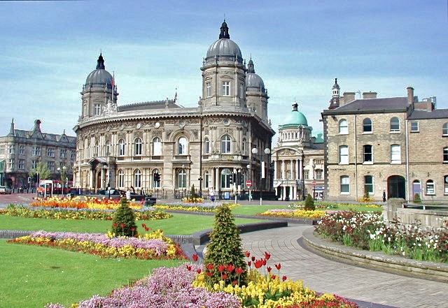 Queens Gardens, Hull Looking west-southwest towards the former Dock Office building which is now Hull Maritime Museum. The Dock Offices were home to the Hull Dock Company from 1871 until 1893 when North Eastern Railway took over the running of the docks. Queen's Dock was filled in in about 1930 and became Queen's Gardens, and the Maritime Museum moved here in 1974.